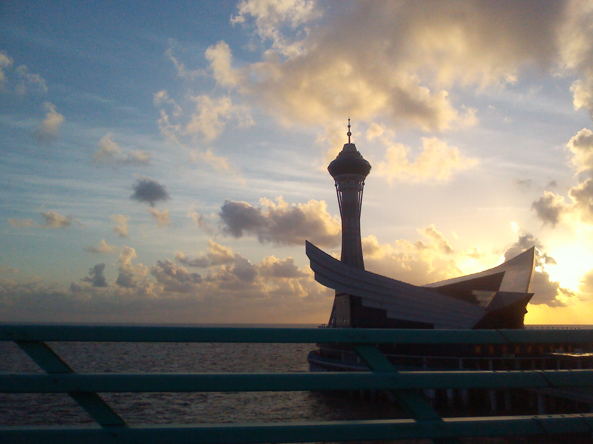 Service centre of Hangzhou Bay Bridge — on Hangzhou Bay in Zhejiang Province, SE China.